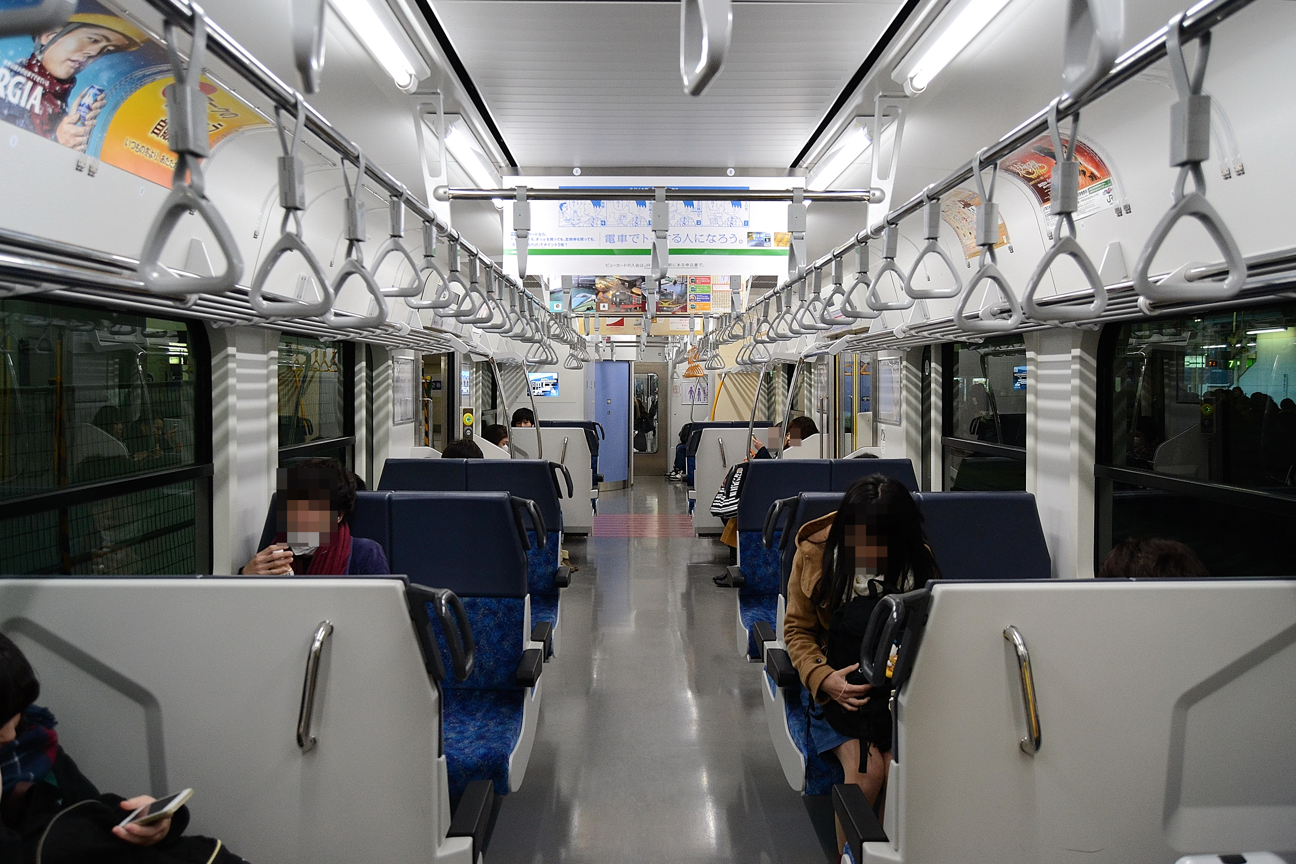 The interior of a JR East HB-E210 series hybrid DMU